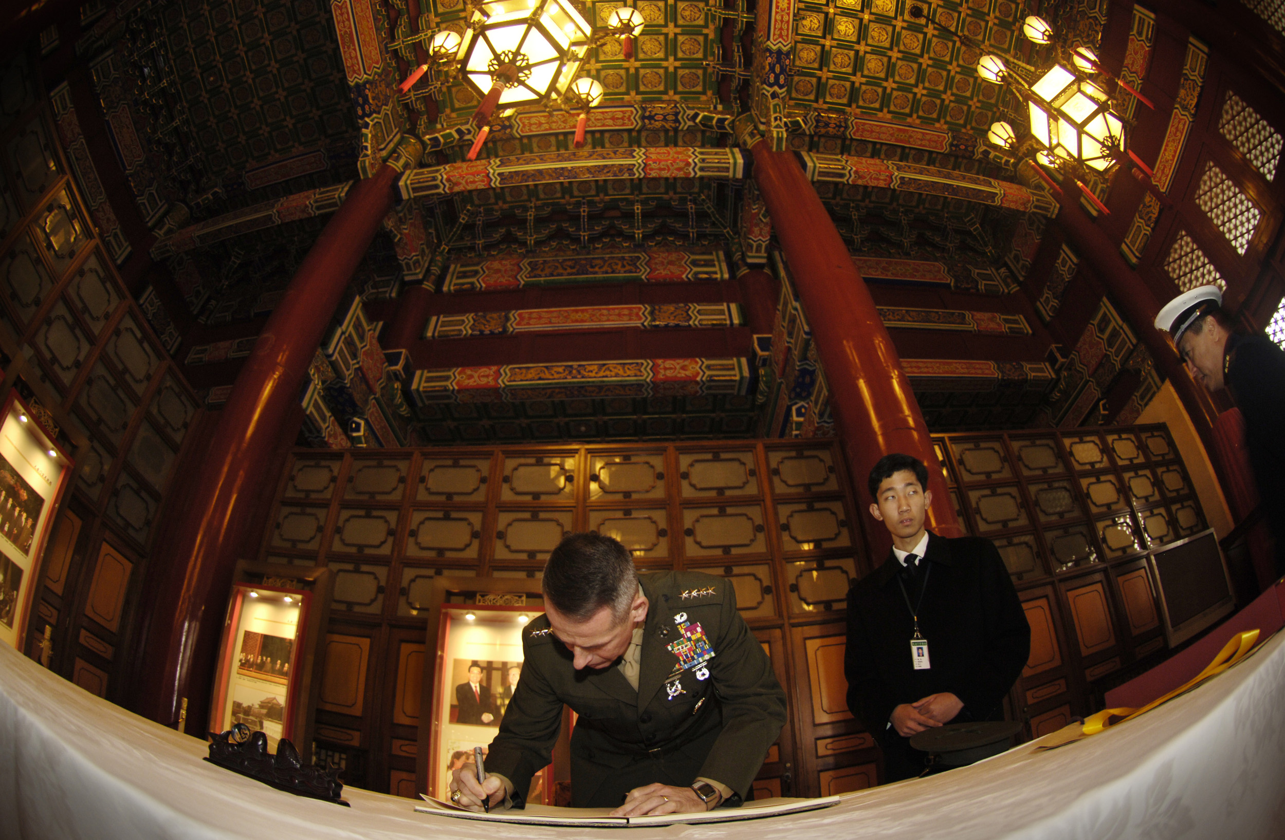 Chairman of the Joint Chiefs of Staff U.S. Marine Gen. Peter Pace signs a guest book at the beginning of his visit to the Forbidden City Beijing, China, March 23, 2007. Pace was invited to visit the "Forbidden City" and "The Great Wall" by his Chinese counterpart Army Gen. Liang Guanglie.